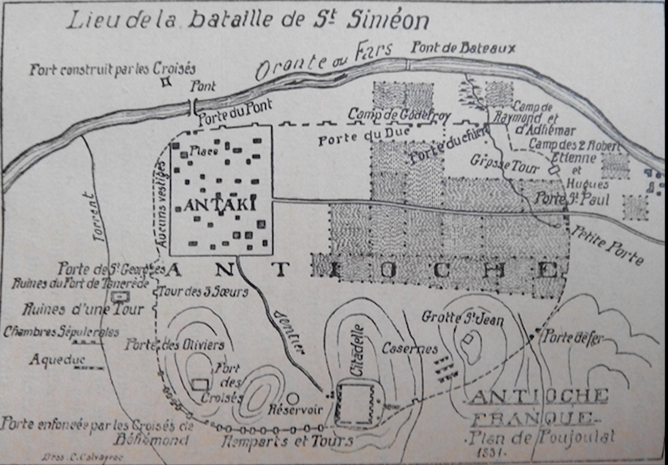 Poujoulat's map of crusaders' Antioch (reproduced in Jacquot, vol 2., 1931: 362).